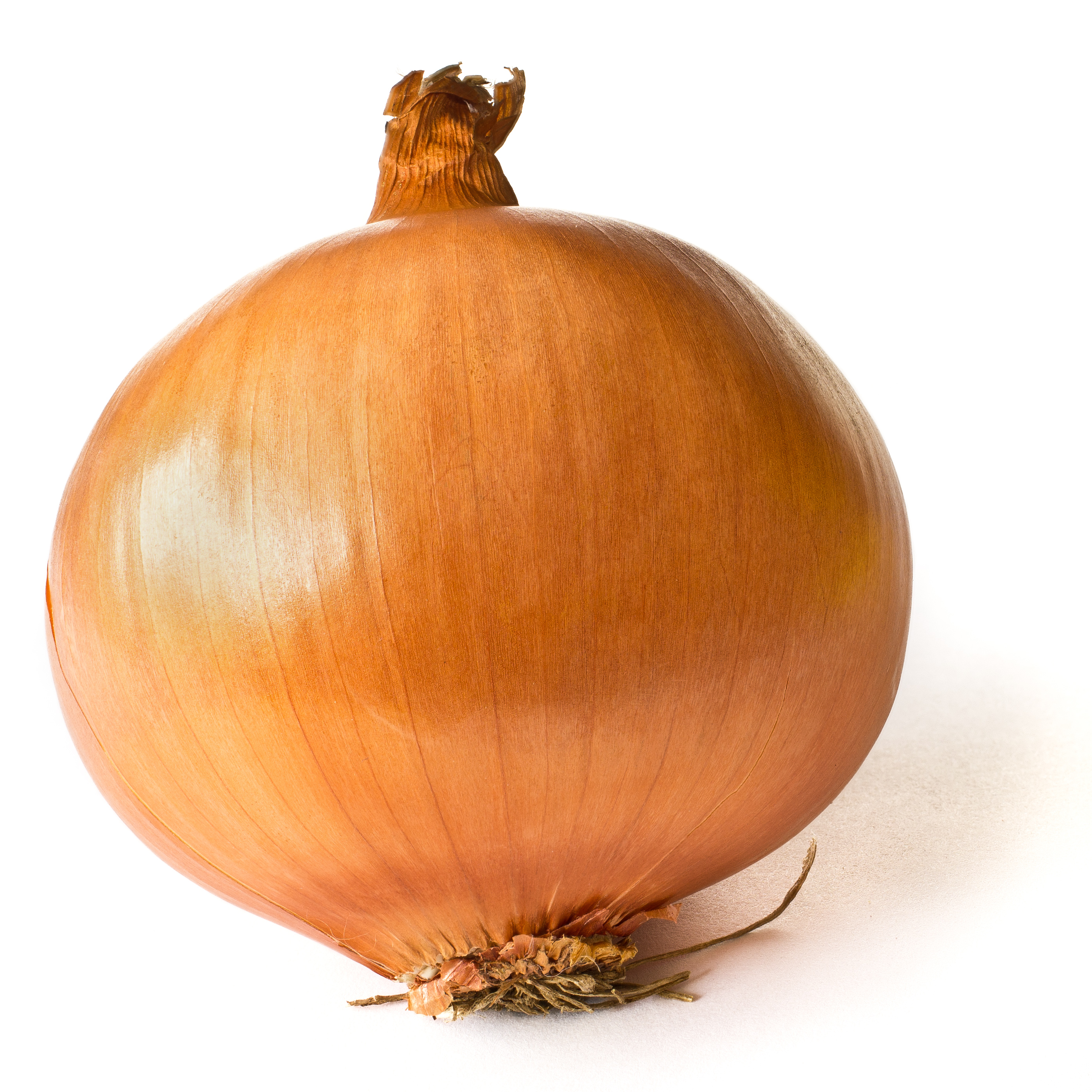 An onion on a white background.